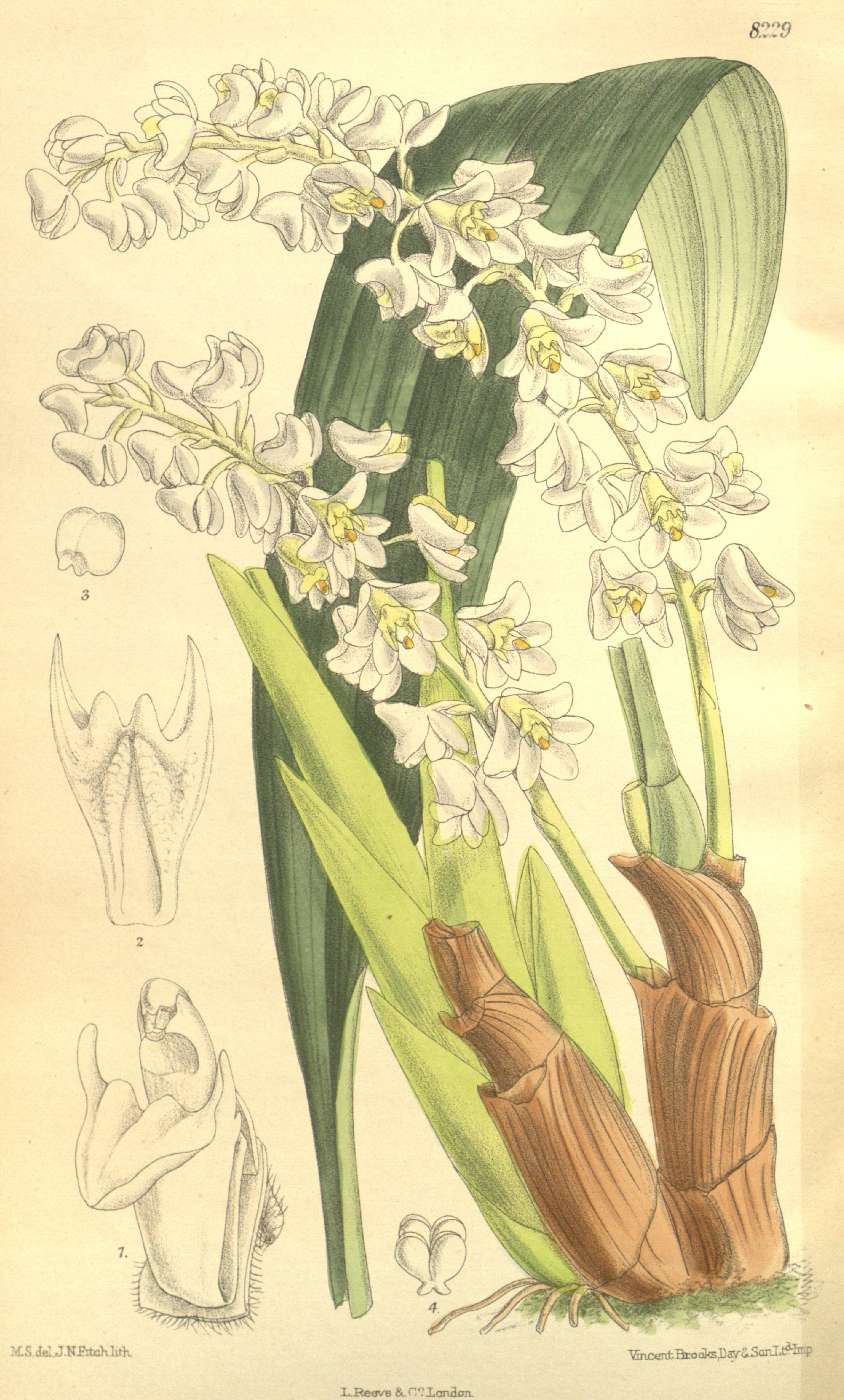 Illustration of Bryobium hyacinthoides (as syn. Eria hyacinthoides)